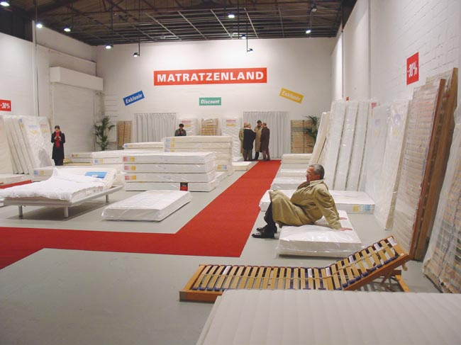 An installation view of the artwork "Matressdiscount" (2002) of the Belgian artist Guillaume Bijl.